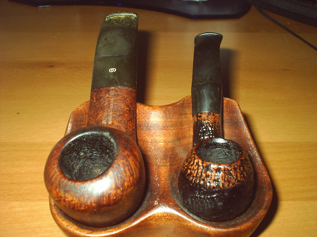 two of my own pipes (wood of erica arborea)